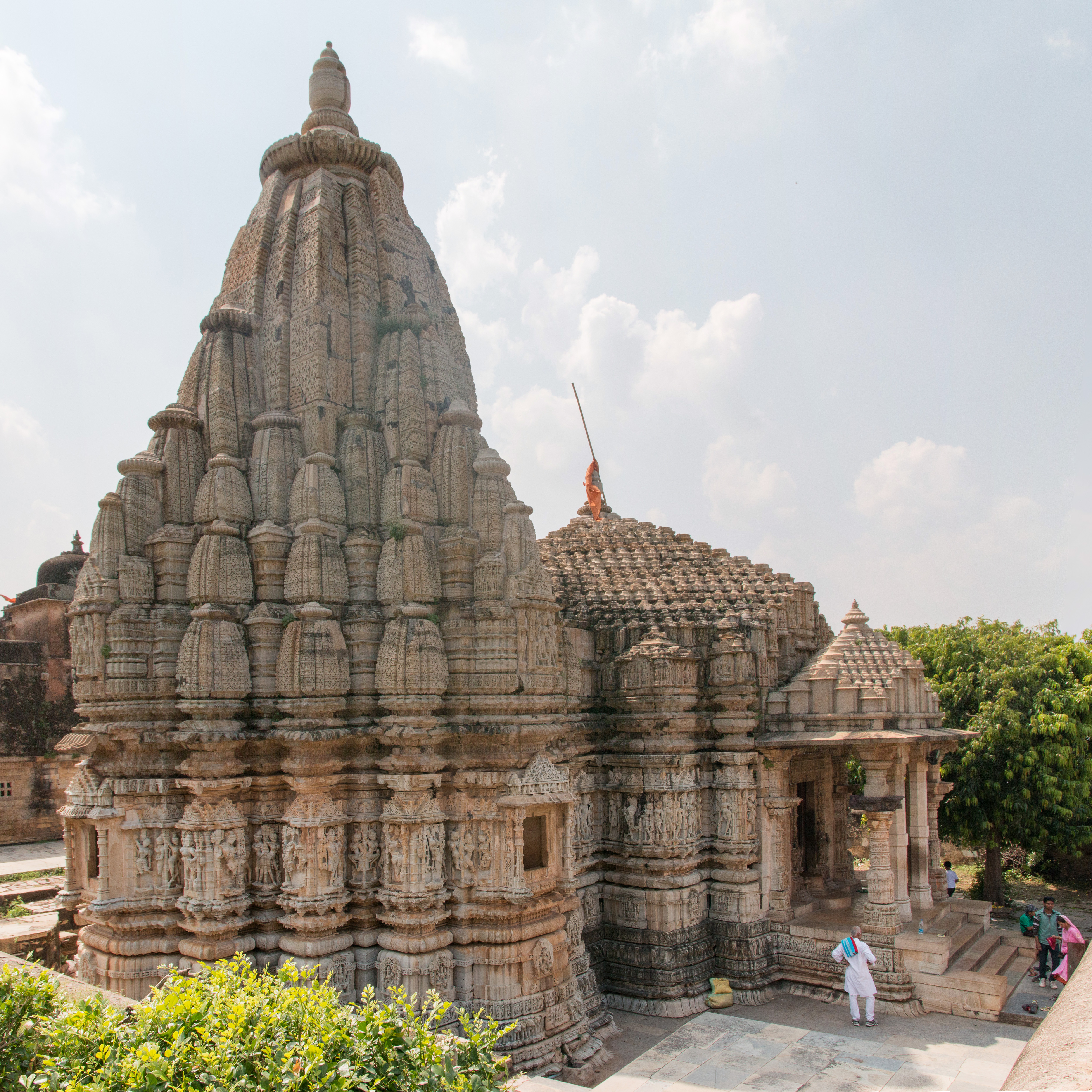 Entrance to the temple Samiddheshwara.